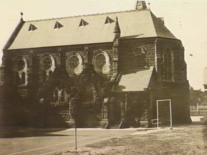 Author:Unknown Date created:ca. 1893-1914 Image title:Melbourne Grammar School Chapel Source: State Library of Victoria Description: Chapel of Melbourne Grammar School.